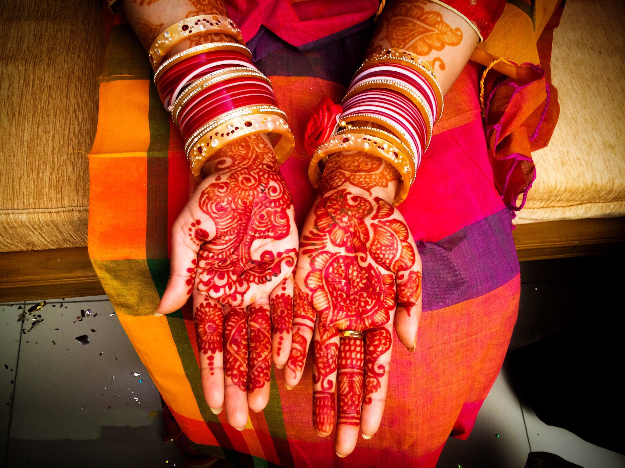 This picture symbolises the Bengali culture of applying henna on the bride’s hand at the pre wedding ritual called “Gaye Holud”. This is the most attractive part of any Bangladeshi wedding. This photo has been taken in the country: Bangladesh